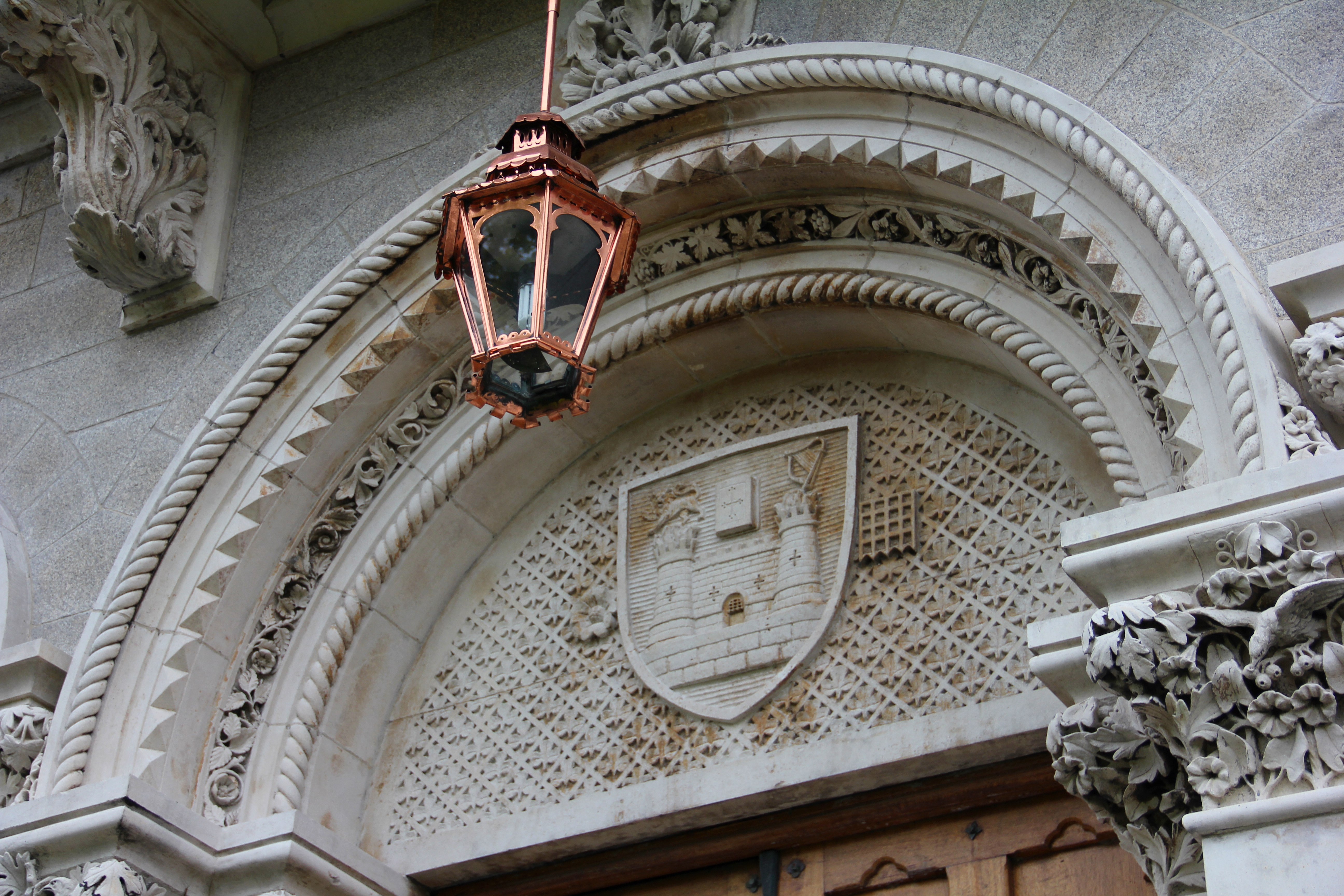 Portal of the Museum Building at Trinity College in Dublin, Ireland.